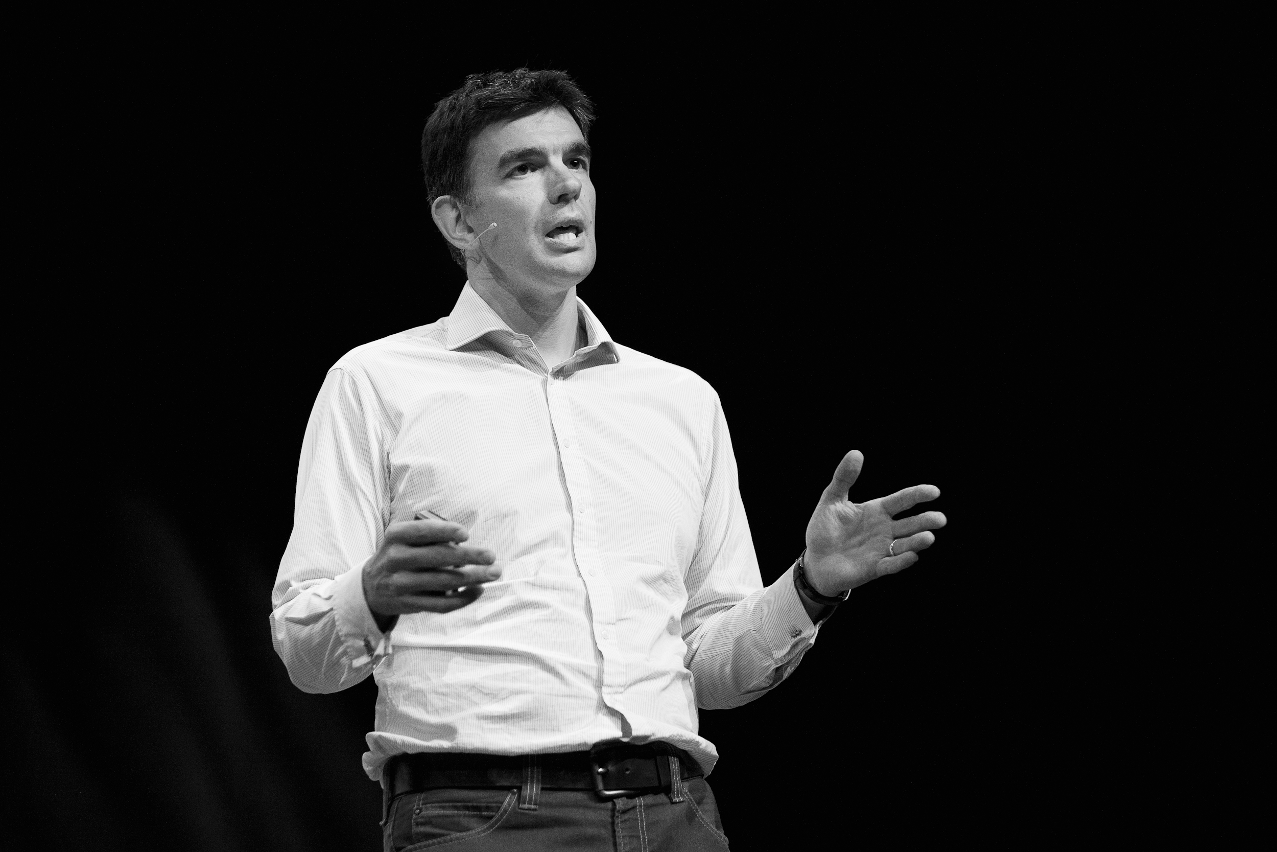 Vice President of Google in Northern and Central Europe. Gulltaggen was founded in 1998, first and foremost to stimulate and reward the heroes in digital creativity. Today, Gulltaggen is the largest event in Norway and the Nordic countries within digital marketing, communication, innovation, leadership and creativity. It has by far become the best arena for sharing competence, knowledge and networking. Gulltaggen is organized by the non-profit trade organizationINMA / IAB Norway Fotograf: Jarle Naustvik